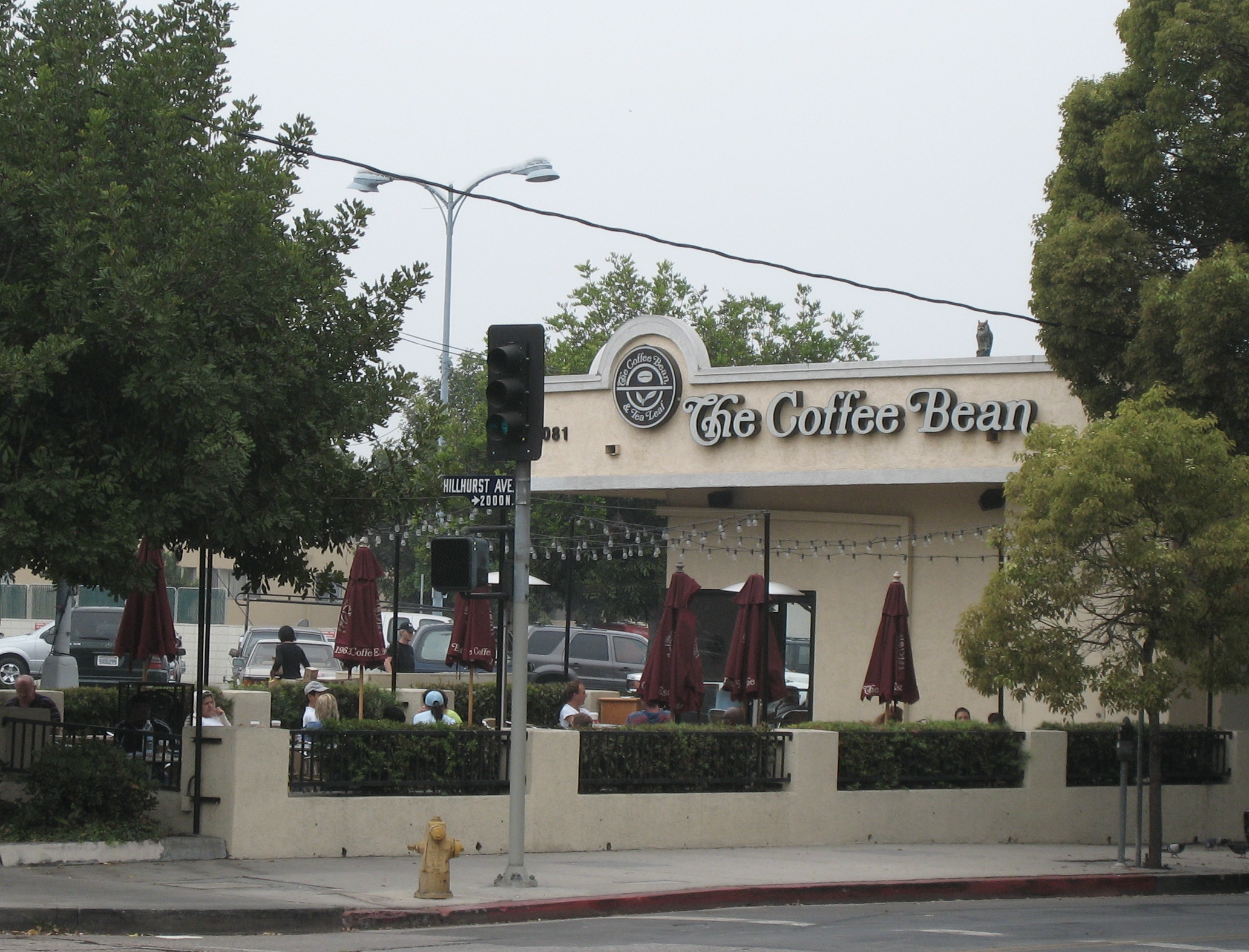 Coffee Bean in the Los Feliz neighborhood of Los Angeles, California